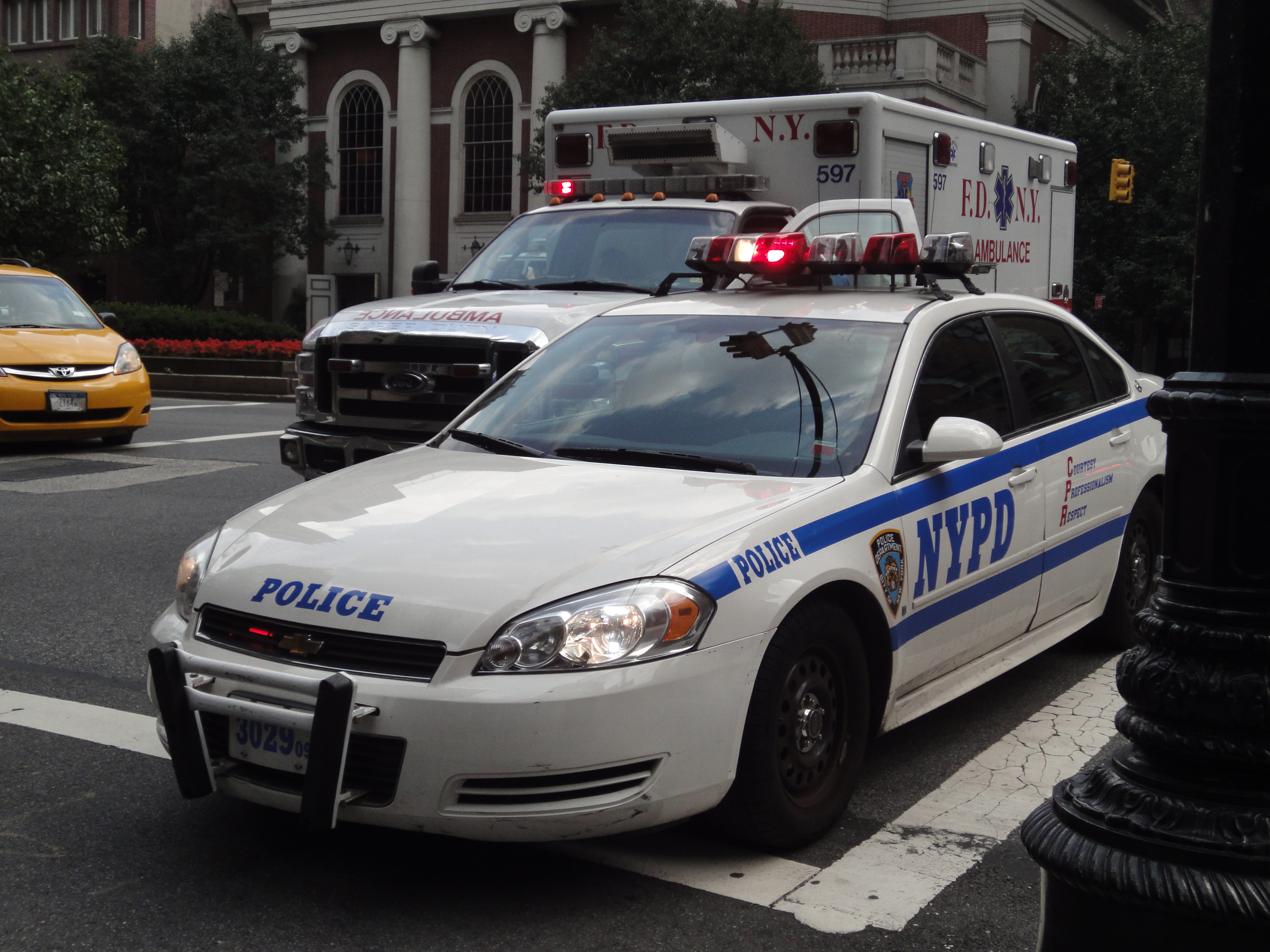 NYPD chevrolet impala New York Police Department